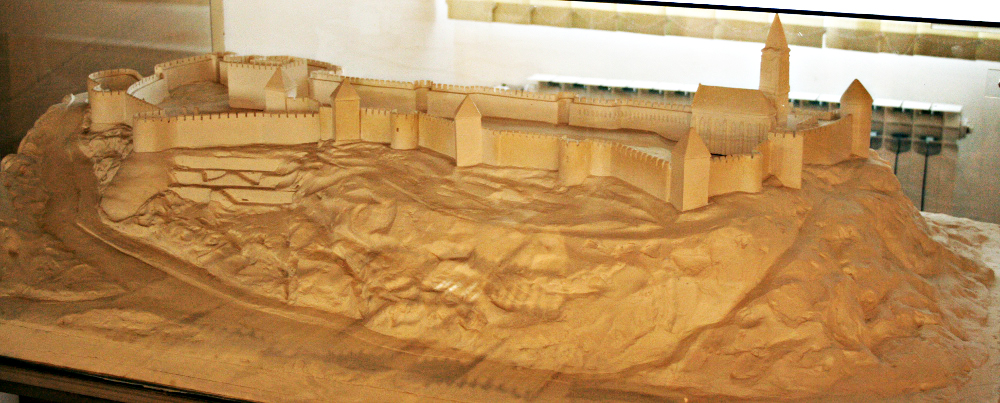 Clay model of the Ilok Castle, exposed in the town museum